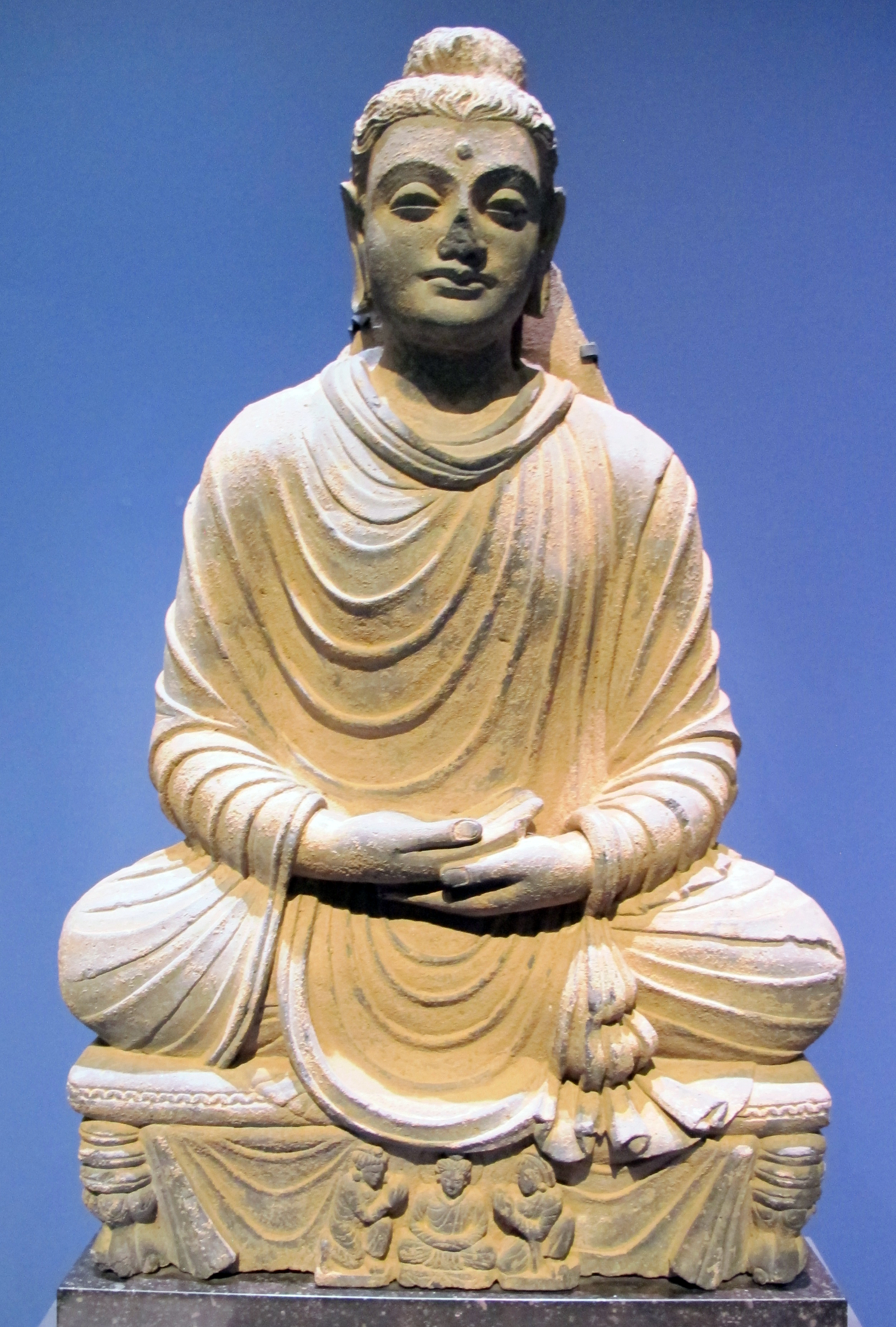 Asian art in the Historisches Museum Bern